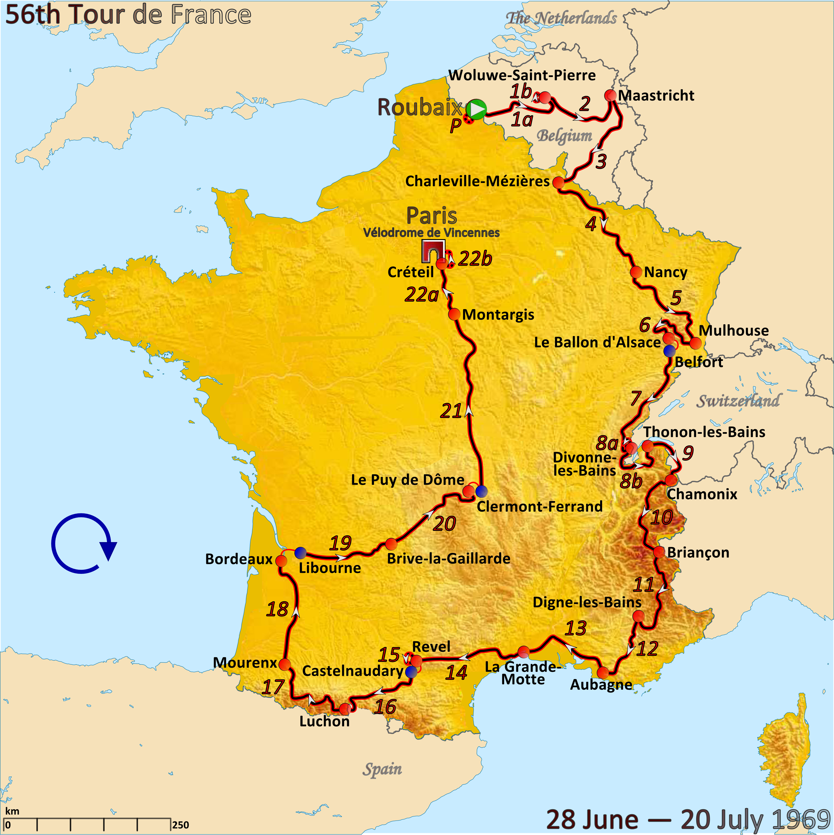 Map of the 1969 Tour de France created in Inkscape using accurate stage maps from touratlas.nl.